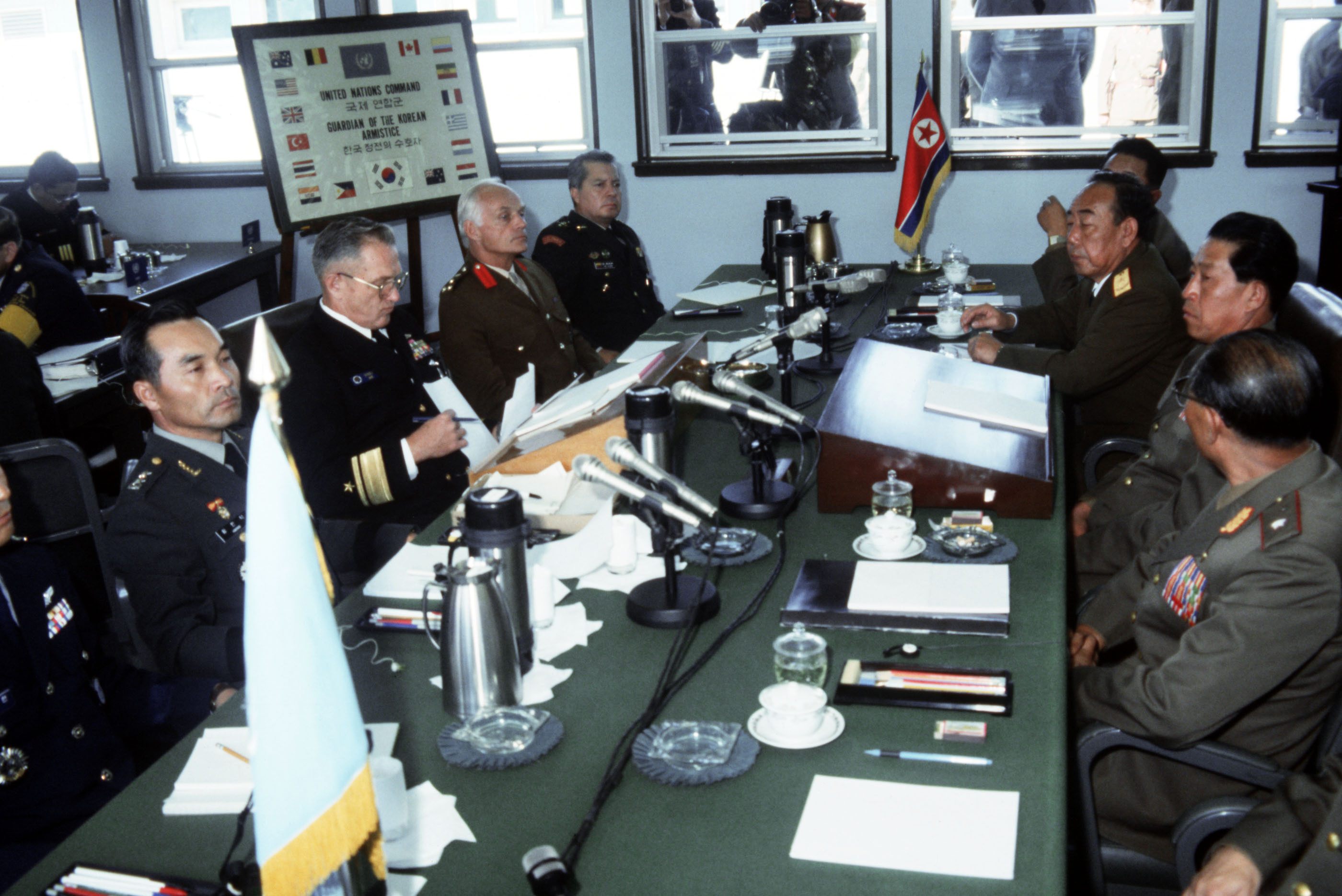 Rear Admiral Larry G. Vogt, center left, and other senior members of the United Nations Command face their North Korean counterparts across the negotiating table during the 458th Military Armistice Commission meeting. The meeting is being held in the Joint Security Area between North Korea and South Korea.